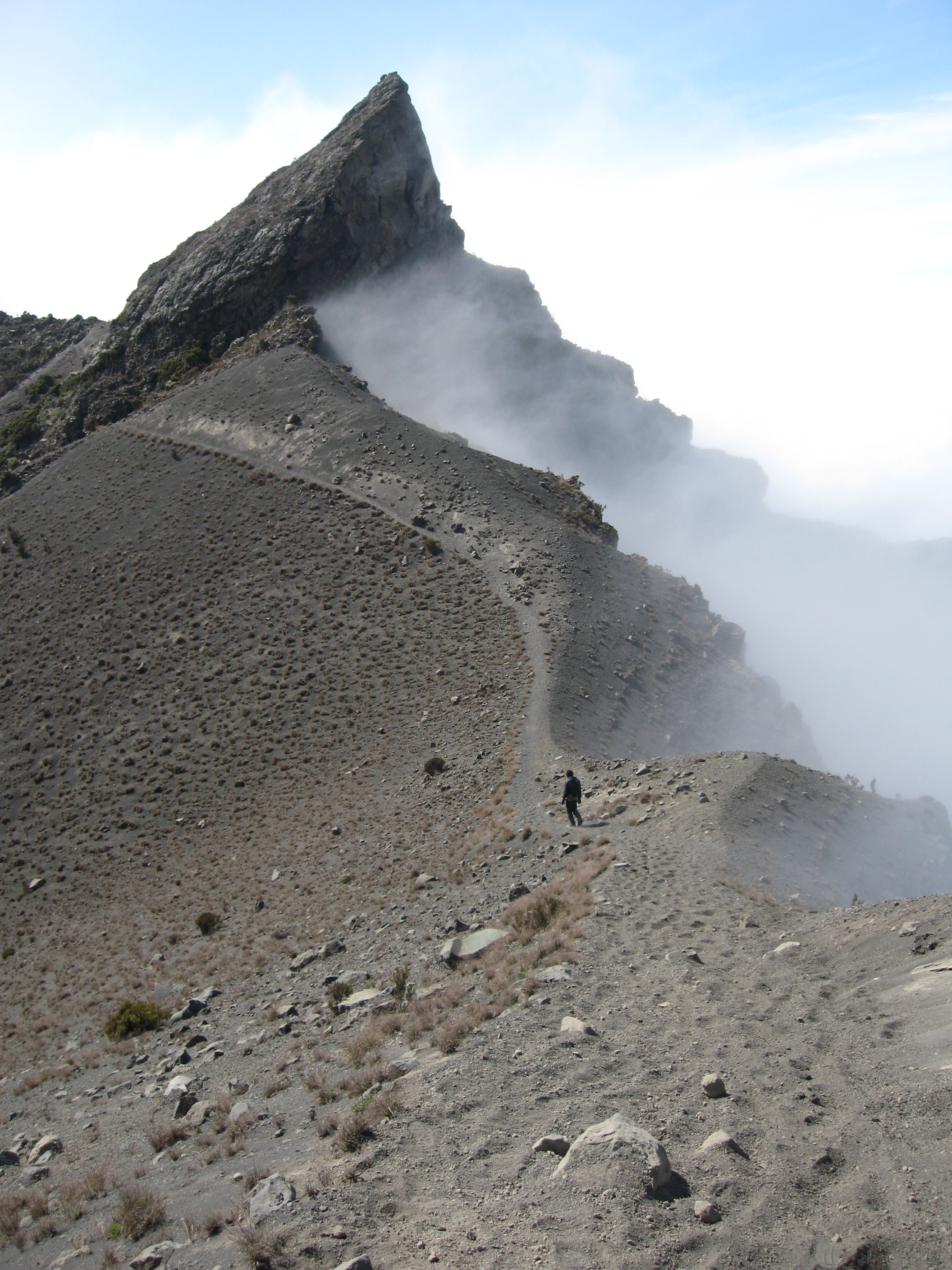 Mount Meru, Tanzania